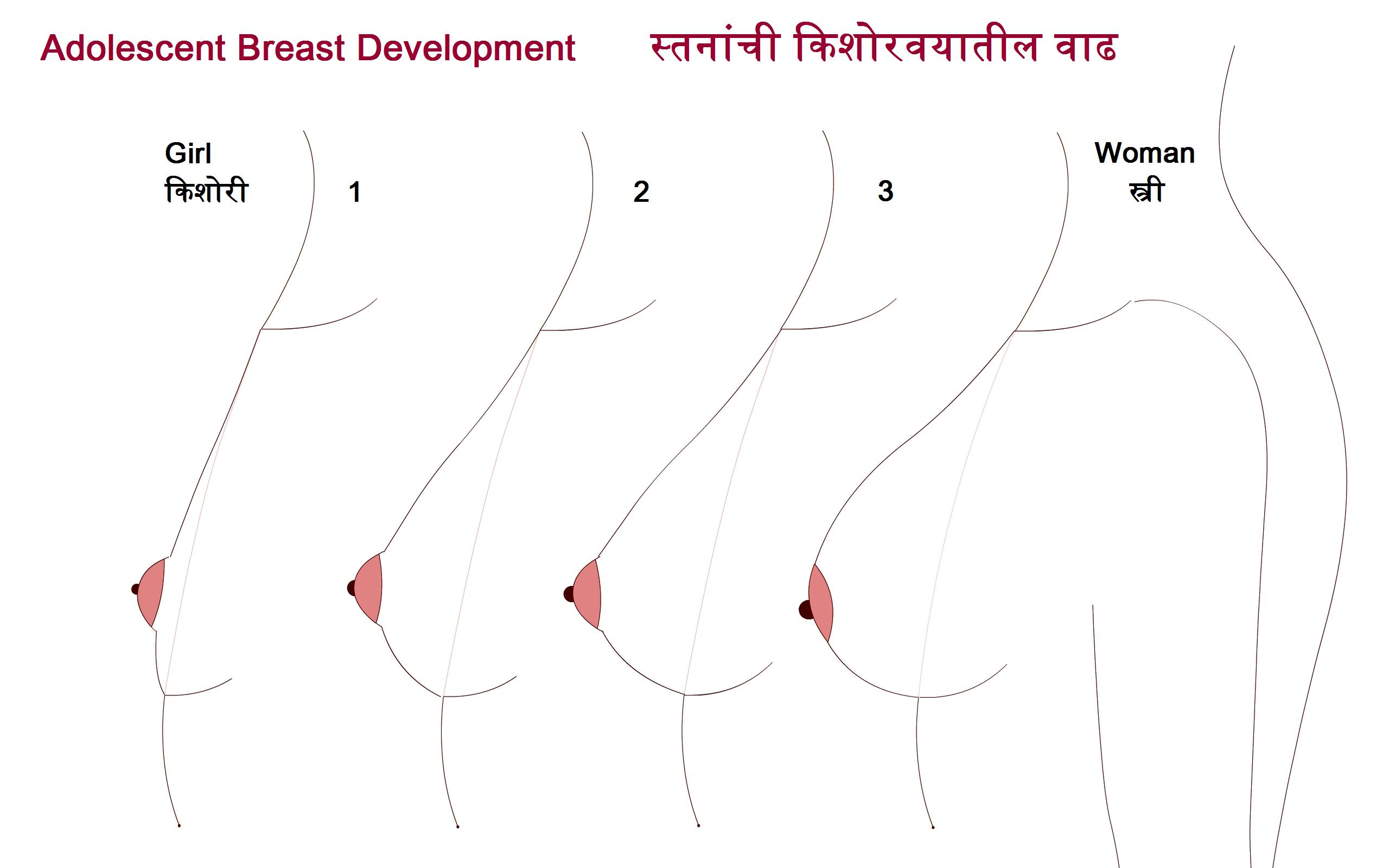 This figure shows Breast development stages from early adolescent to adult.